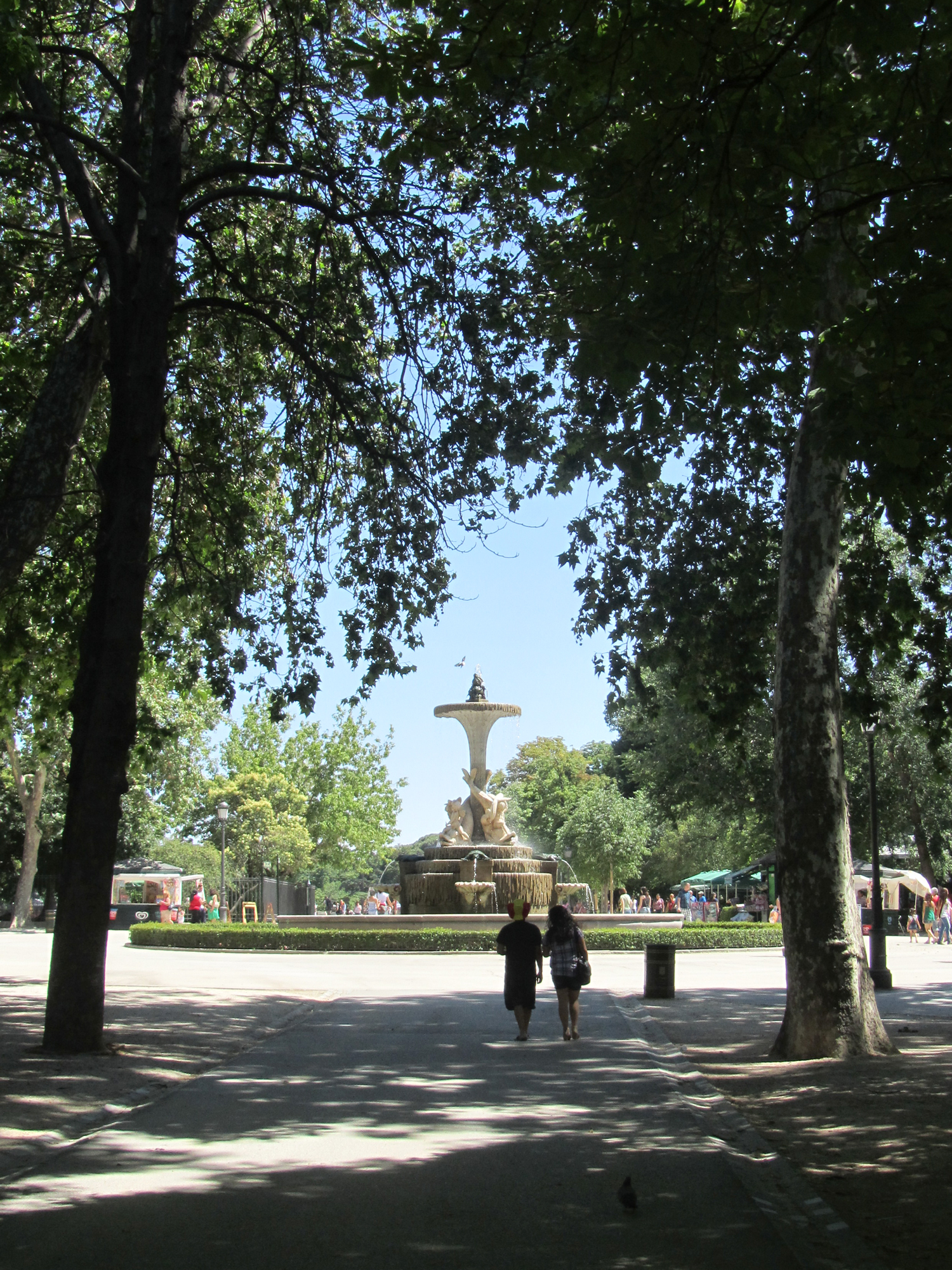 Plaza de Nicaragua, Parque del Buen Retiro, Madrid